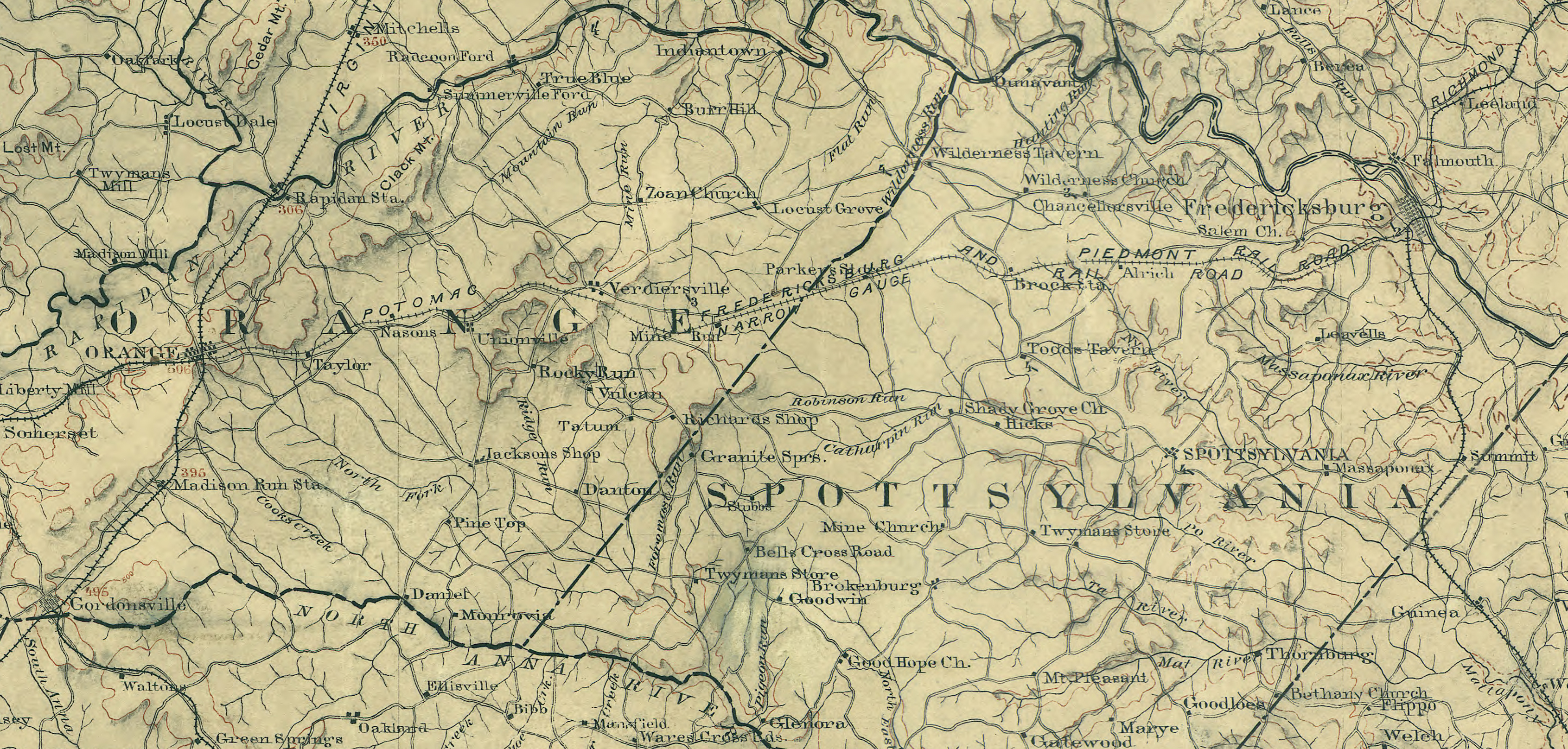 This map shows the line of the Potomac, Fredericksburg, & Piedmont Railroad from Orange to Fredericksburg, VA. Cropped from original.